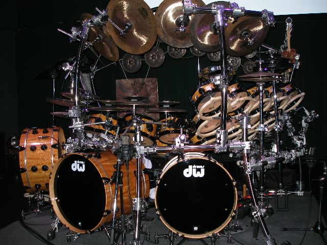 Terry Bozzio's Drum Kit, Out Trio Japanese tour 2007 at Jan 27 in STB 139, Tokyo